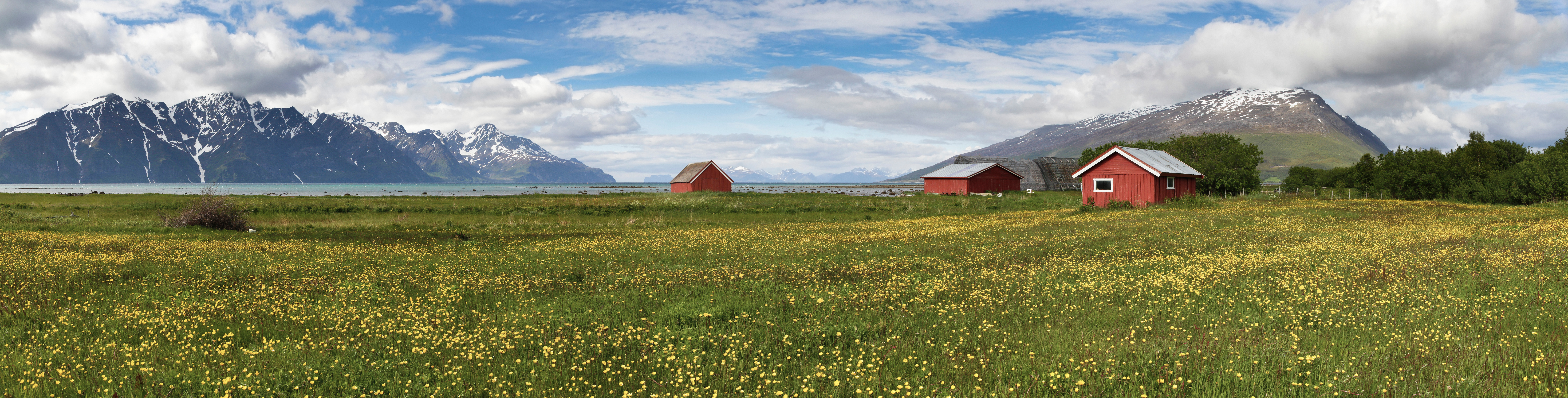 Landscape at Lyngen fjord towards north, Spåkenes, Nordreisa, Troms in 2012 June.